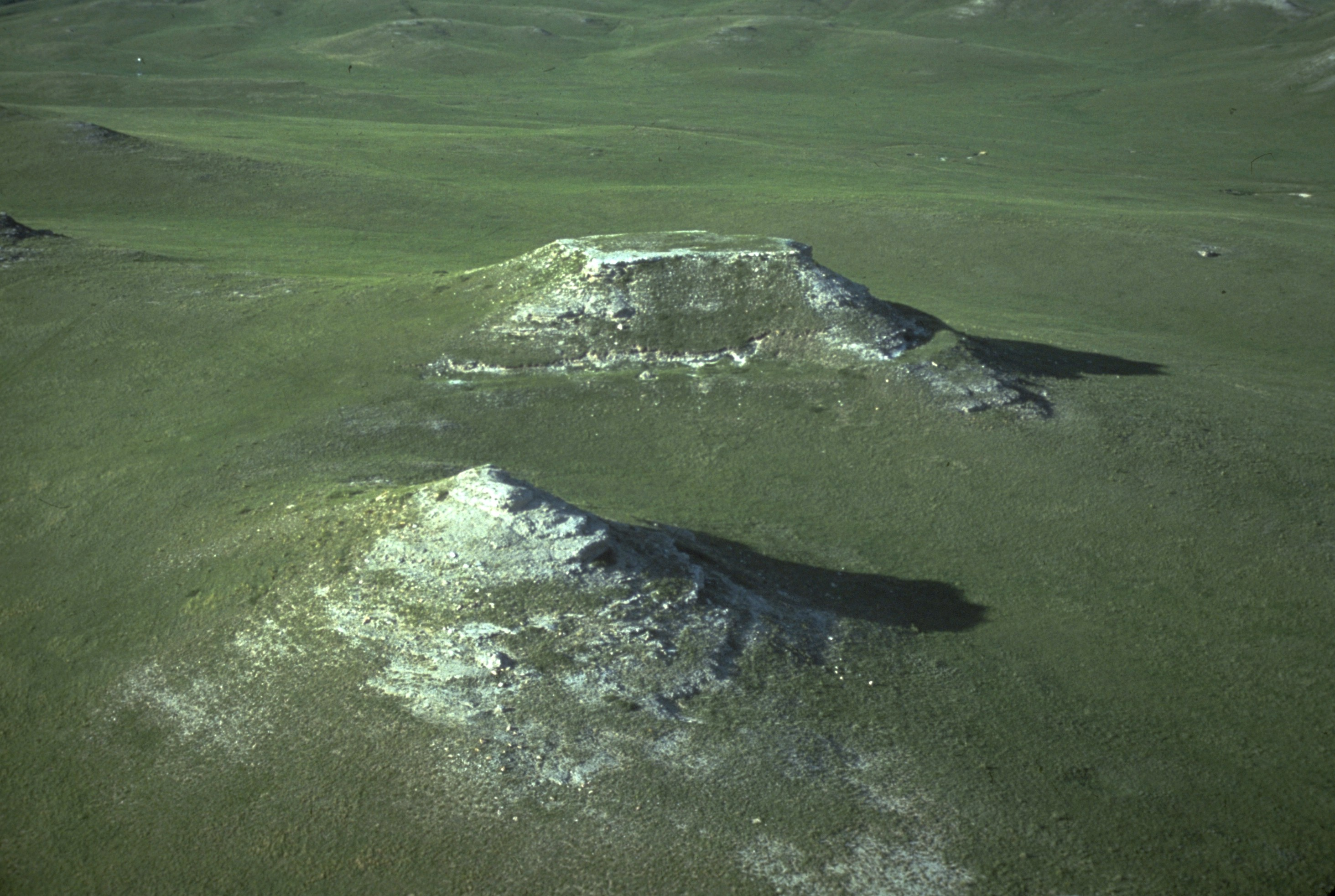 University and Carnegie Hill fossil sites. Agate Fossil Beds National Monument, Nebraska USA